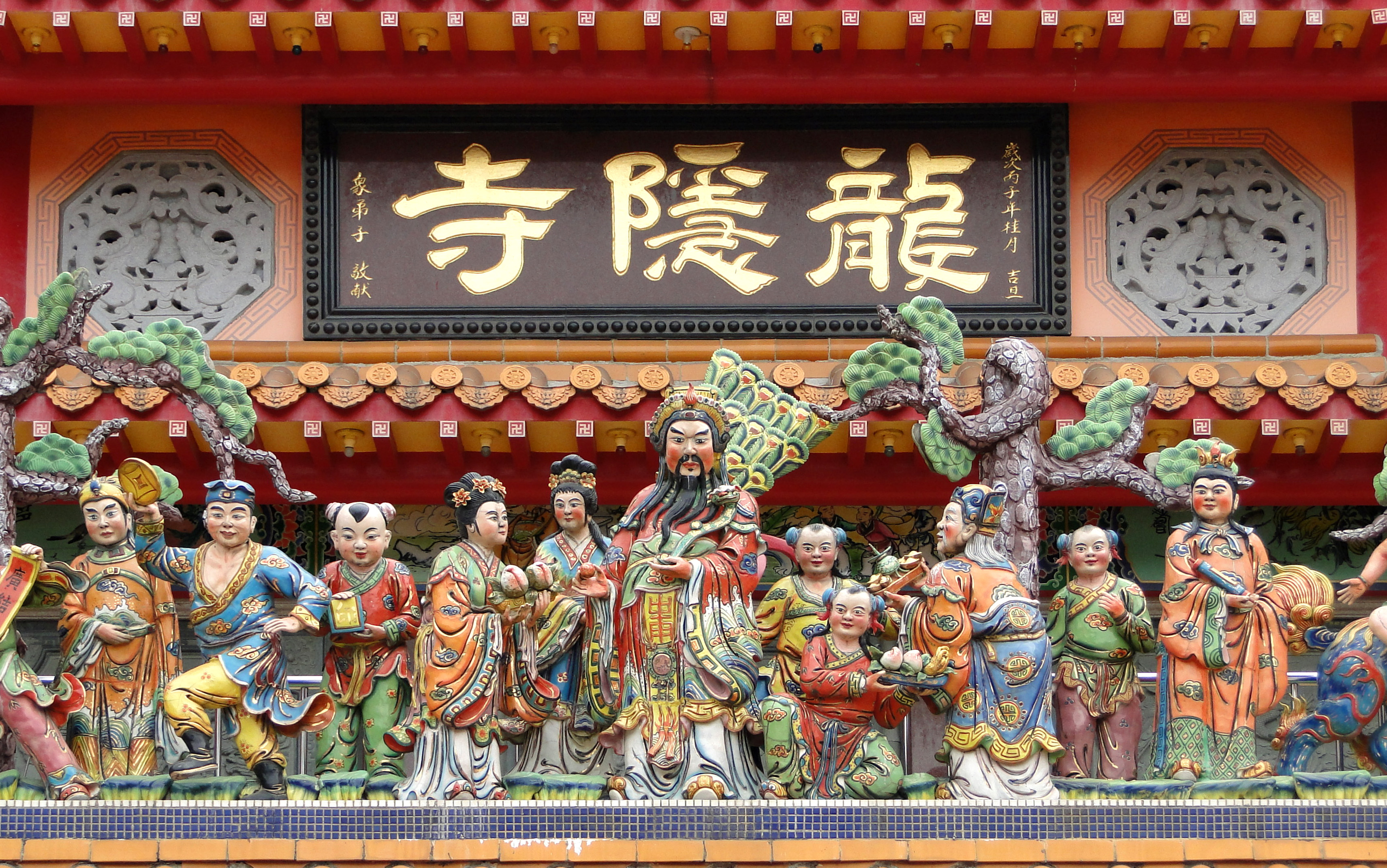 Detail of the roof of the Longyin Temple in Chukou, Taiwan